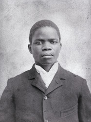 Taylor University, Used in Samuel Kaboo Morris.